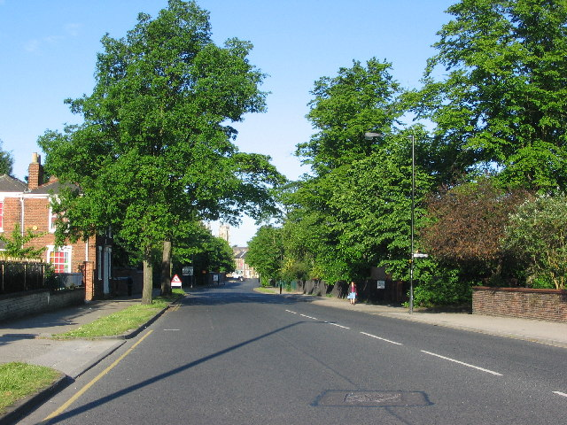 View down Heworth Green towards York